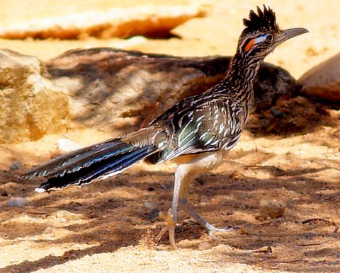 A Greater Roadrunner in California, USA.